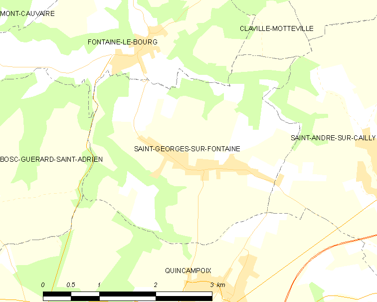 Map of French municipality Saint-Georges-sur-Fontaine